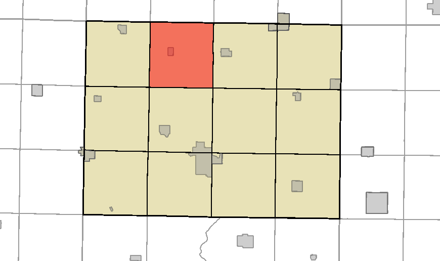 This is a map of Humboldt County, Iowa, USA which highlights the location of Delana Township.